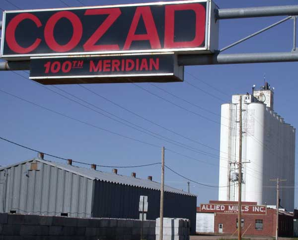 Sign at the 100th meridian on U.S. Highway 30 in Cozad, Nebraska though the actual meridian runs about 1/3 mile west.(taken Oct. 4, 2004)